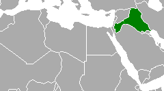 Arab Federation of Iraq and Jordan map 1958.